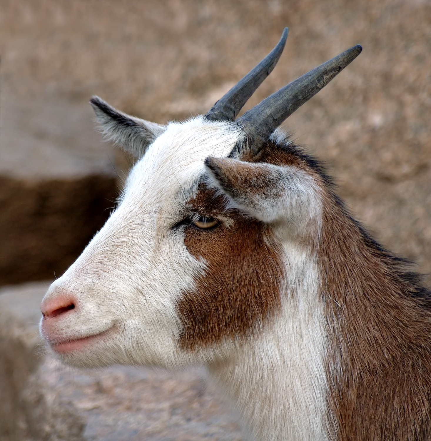 This image shows a domestic goat portrait.